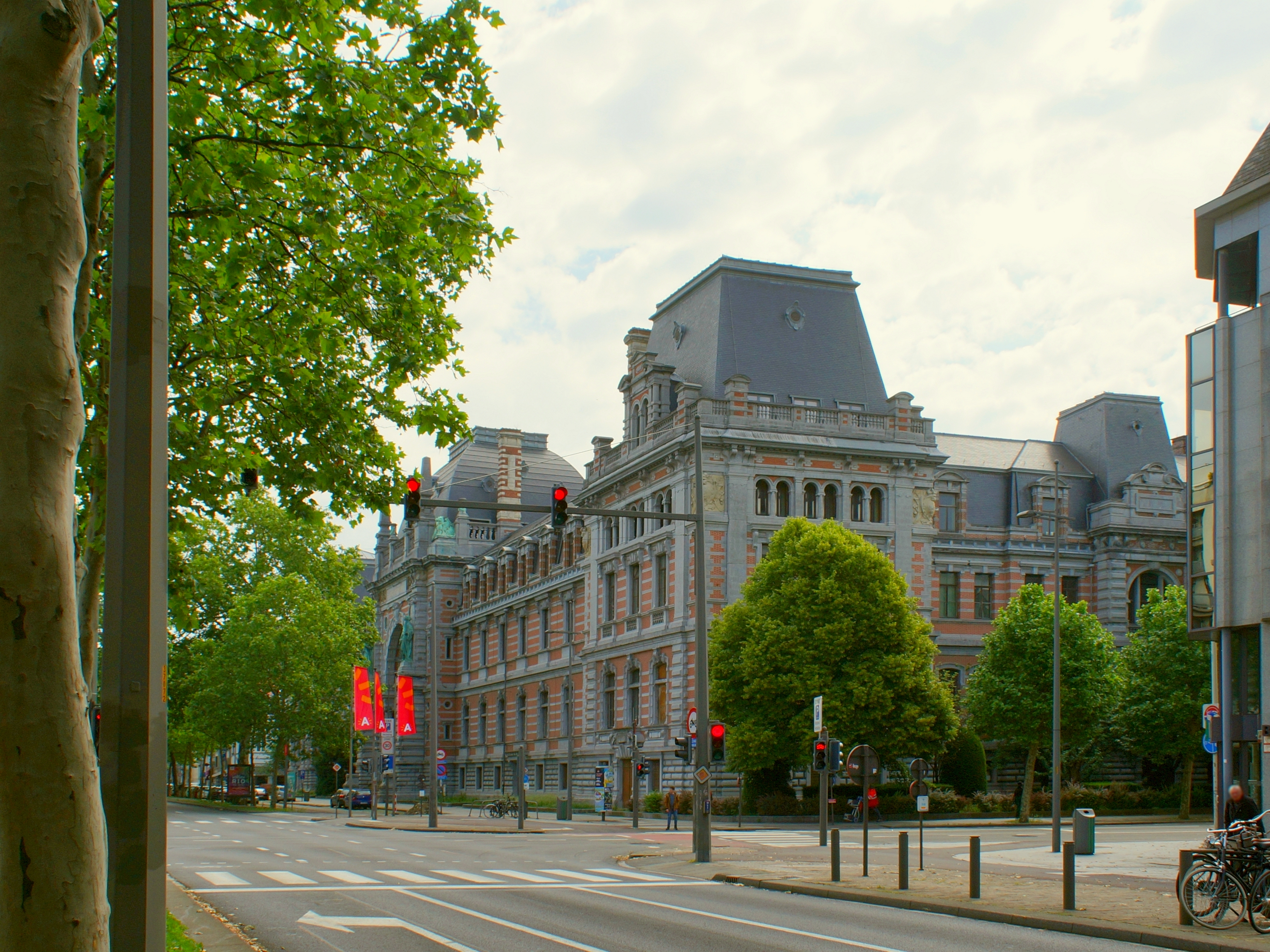 Work by the architects Louis Baeckelmans and Frans Baeckelmans (1871-1874).